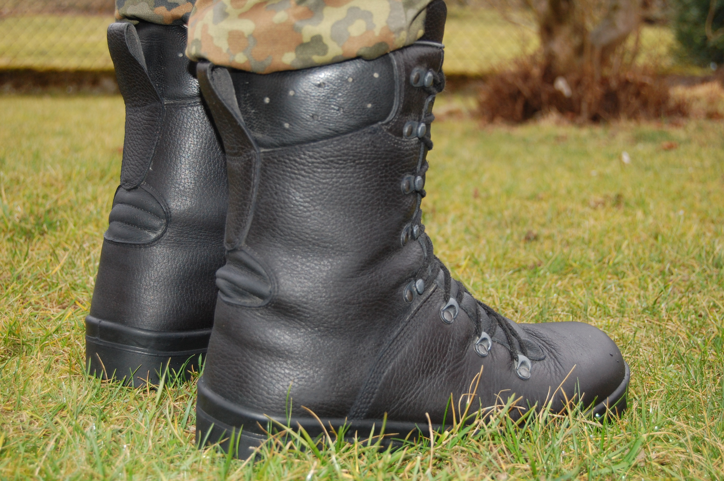 Model 2007 DMS, received in Octobre 2010, have been in service until March 2011 along with another pair. Current default boot of the German Army.